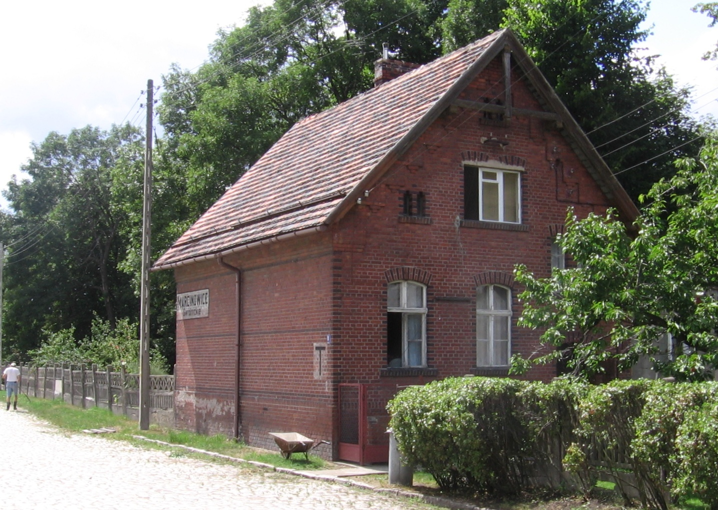 near Sobótka, Poland - former railway infrastructure building - stationmaster quarter.